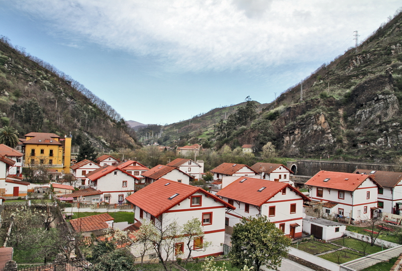 Vista del poblado minero de Bustiello, Mieres (Asturias).